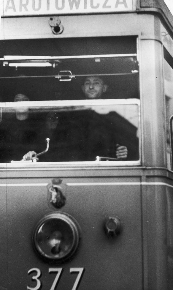 Józef Noji in a tram.